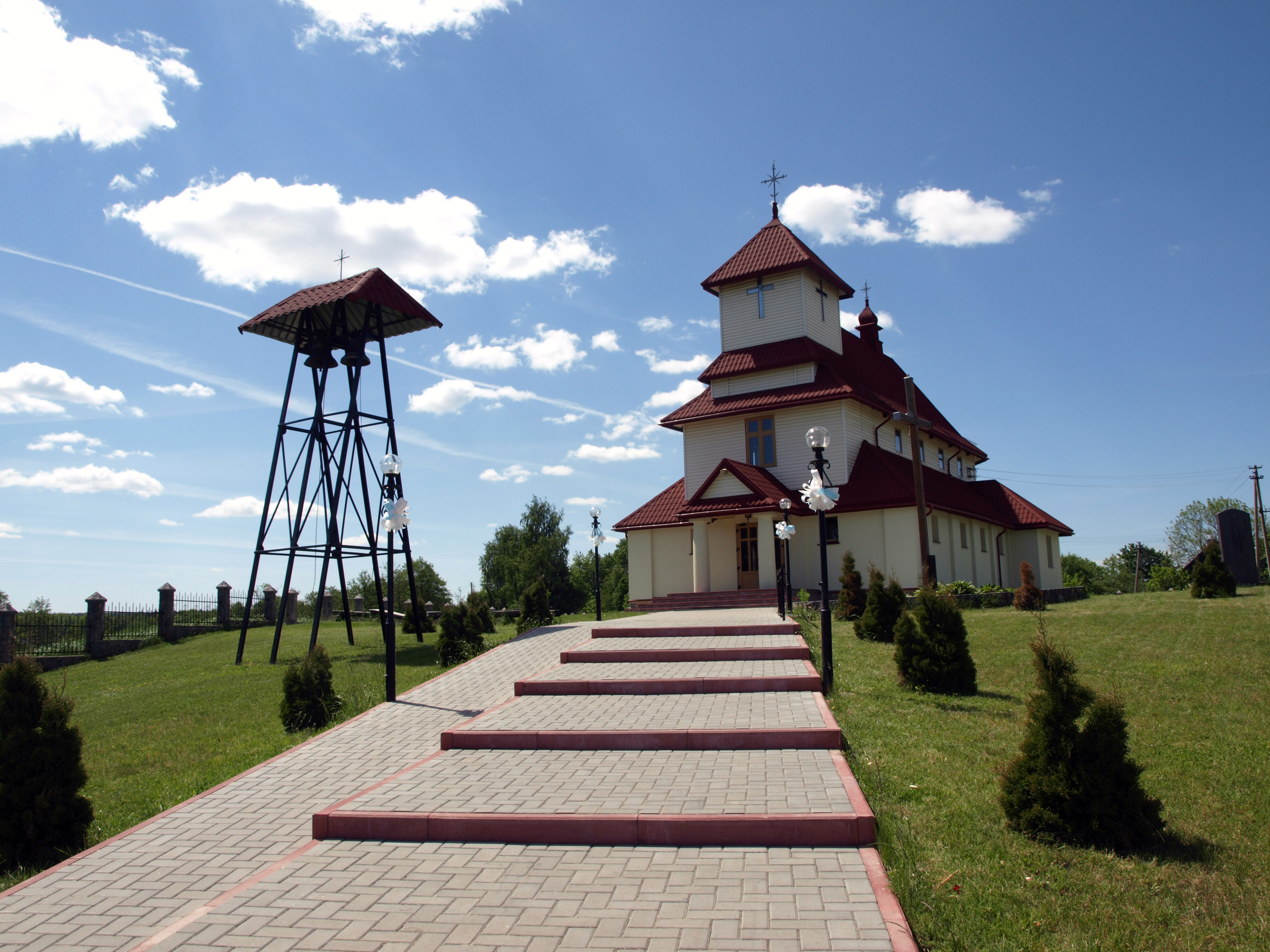 Jašiūnai church, Šalčininkai district, Lithuania